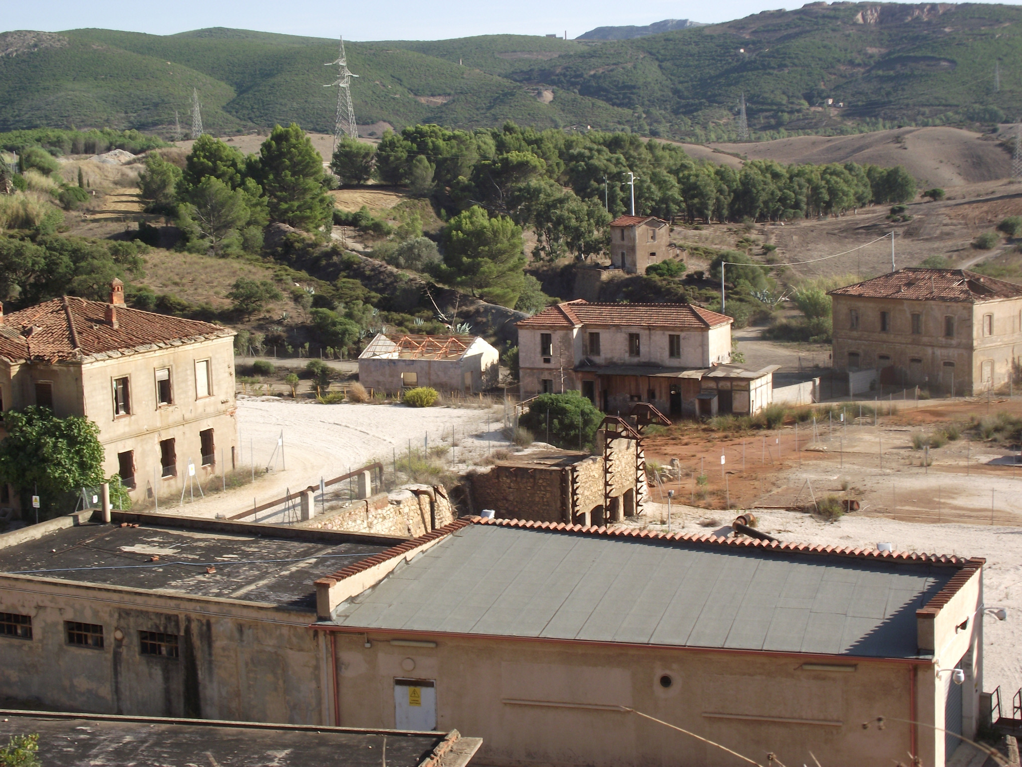 The two former railway stations of Monteponi, mining hamlet in the suburbs of Iglesias, in Sardinia, Italy. In the foreground what remains of the terminus of the private railway to Portovesme, closed in 1963. Behind there's the FMS station, along the San Giovanni Suergiu-Iglesias railway, closed in 1974